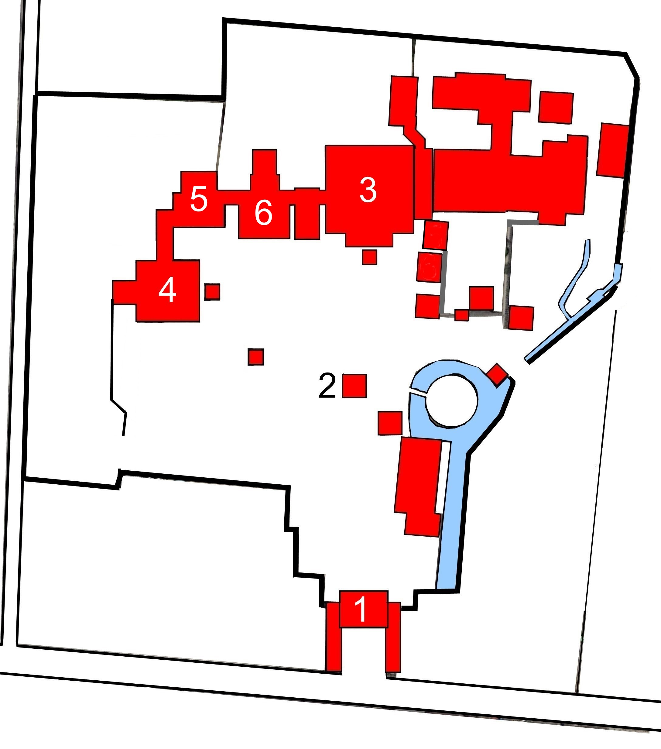 Layout of Konzôji temple at Zentsuji, Japan